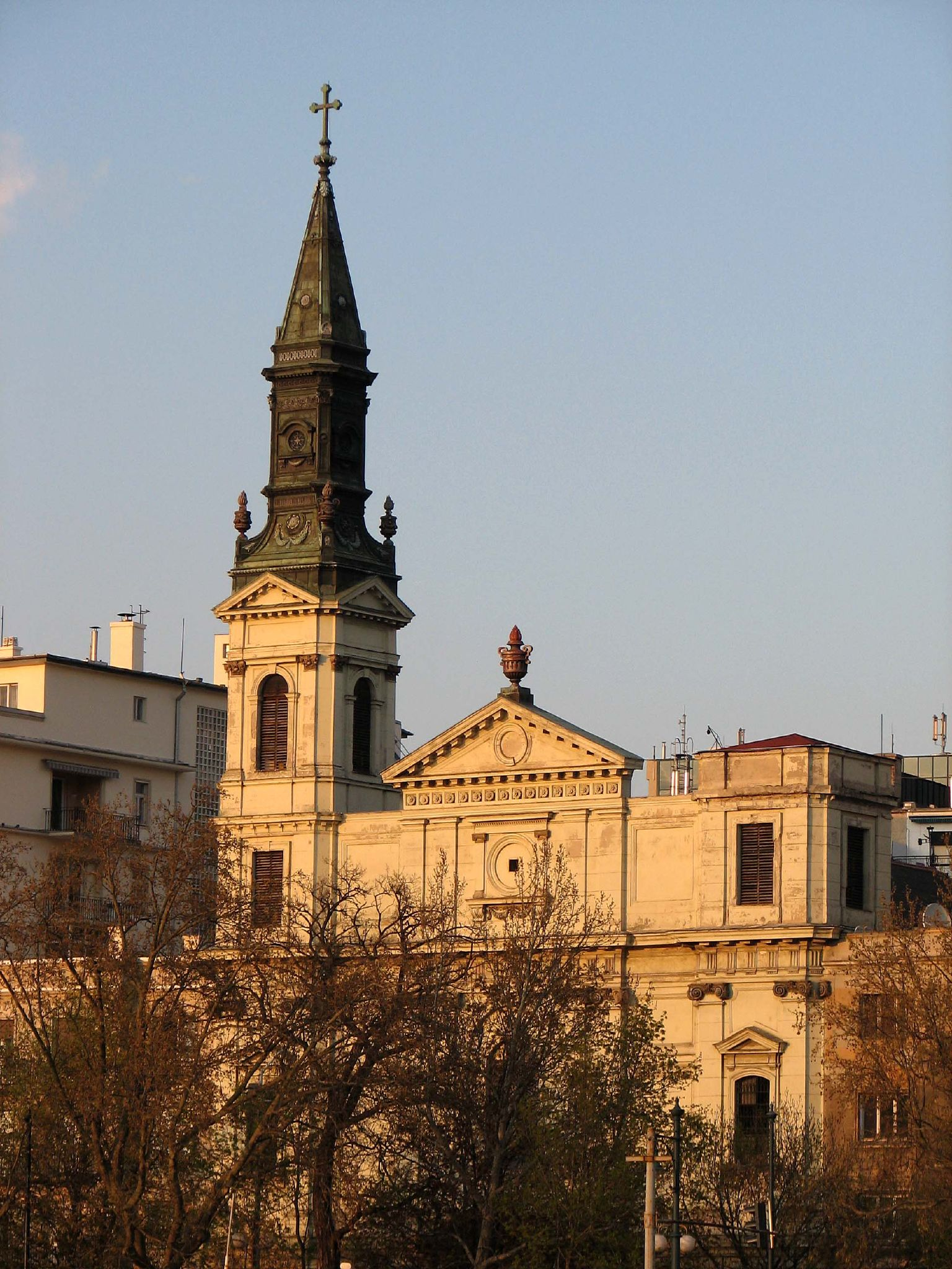 Hungarian Orthodox Church 01